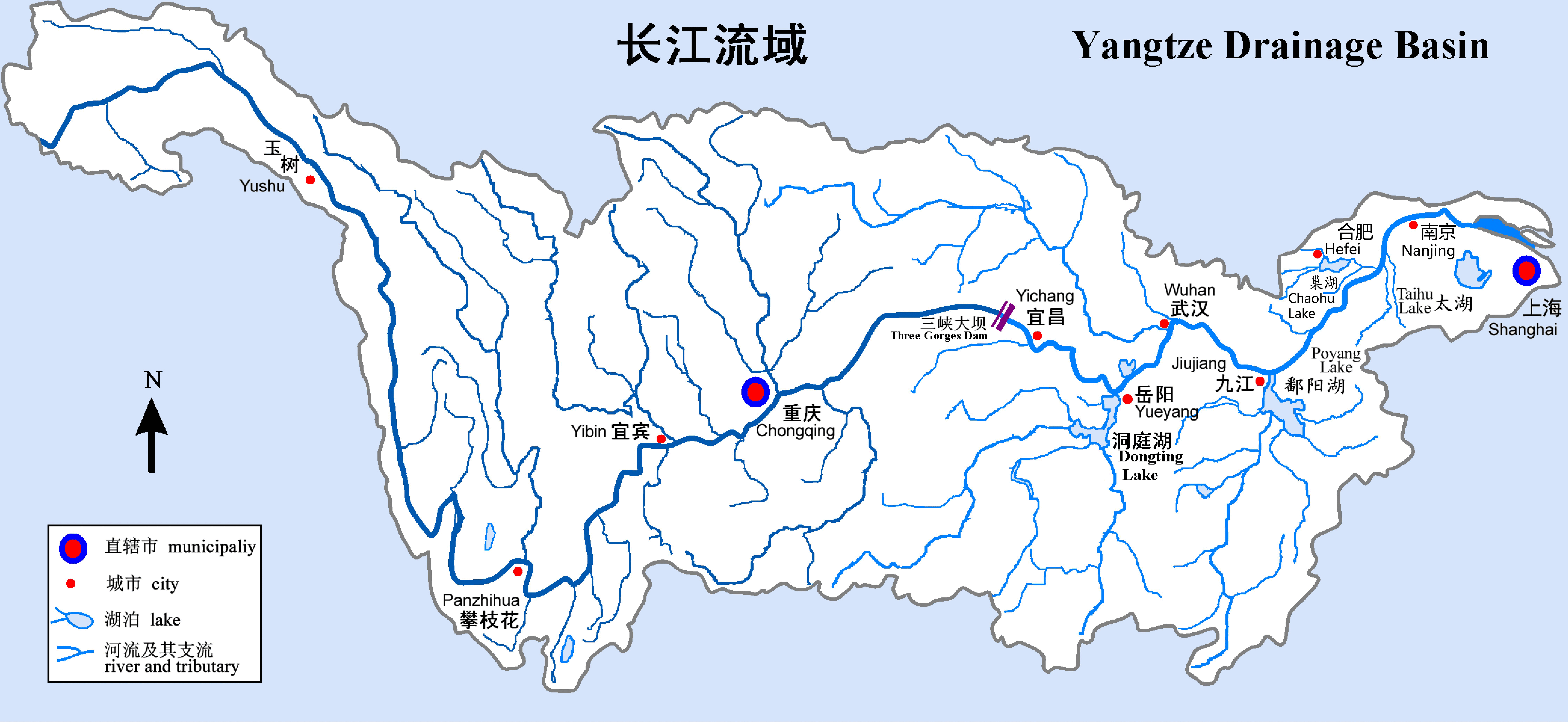 Yangtze River basin